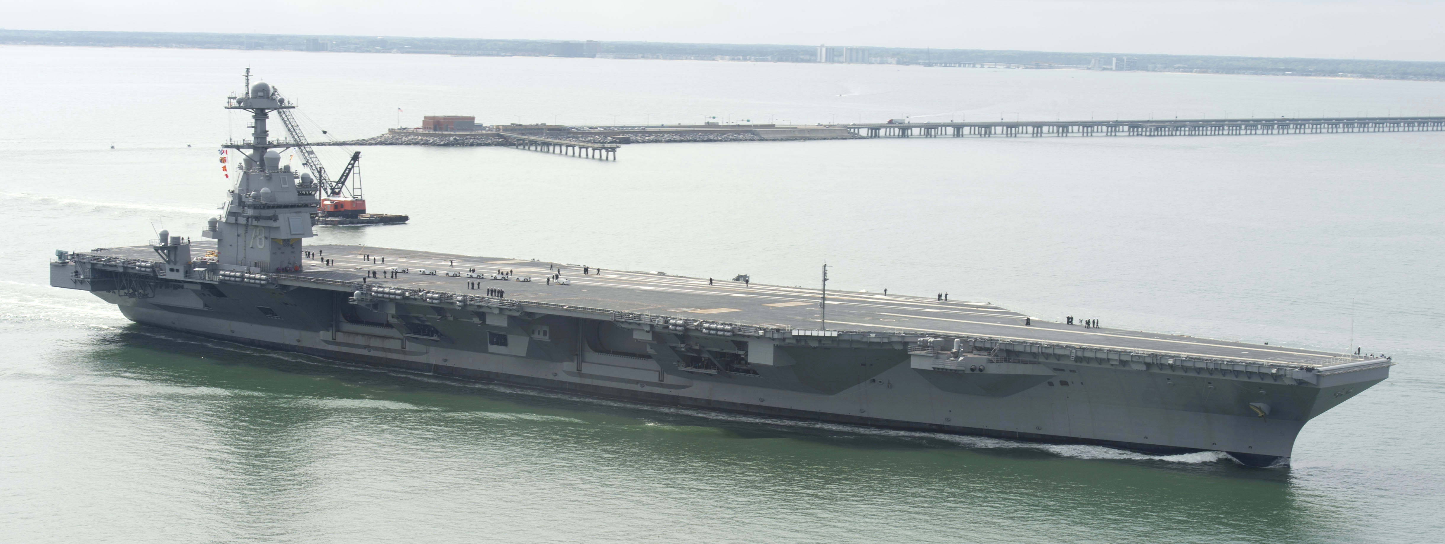 The U.S. Navy aircraft carrier USS Gerald R. Ford (CVN-78) arrives at Naval Station Norfolk, Virginia (USA), after returning from Builder's Sea Trials and seven days underway.